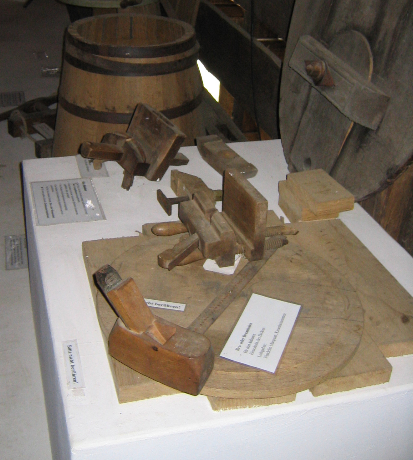 Tools of a Cooper at the Freilichtmuseum Neuhausen ob Eck